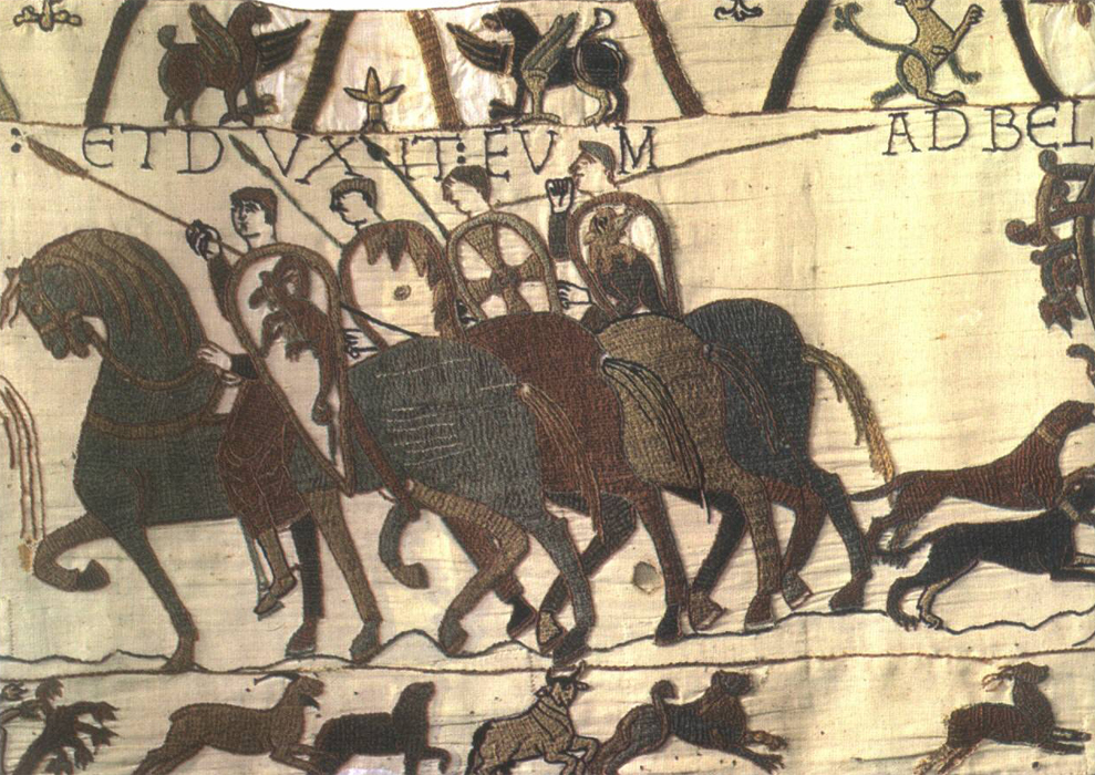 Fragment of Bayeux Tapestry displaying Romanesque shields during the conquest of England's Normandy in 1066